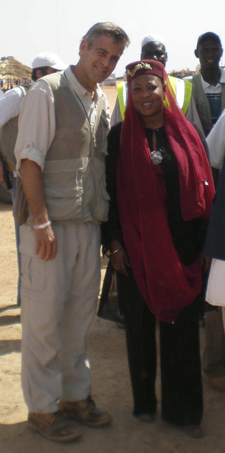 George Clooney and Fatma Samoura